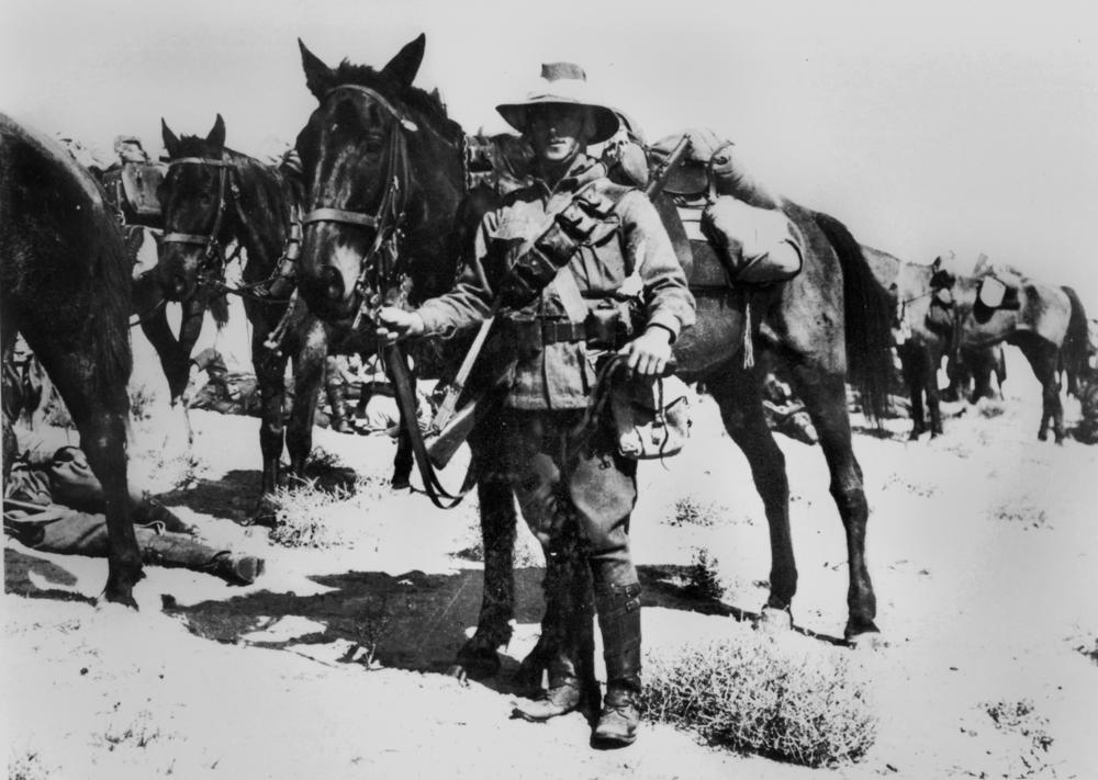 Member of the Australian 2nd Light Horse on active duty in the Middle East, ca. 1917 Unidentified soldier leading his horse.